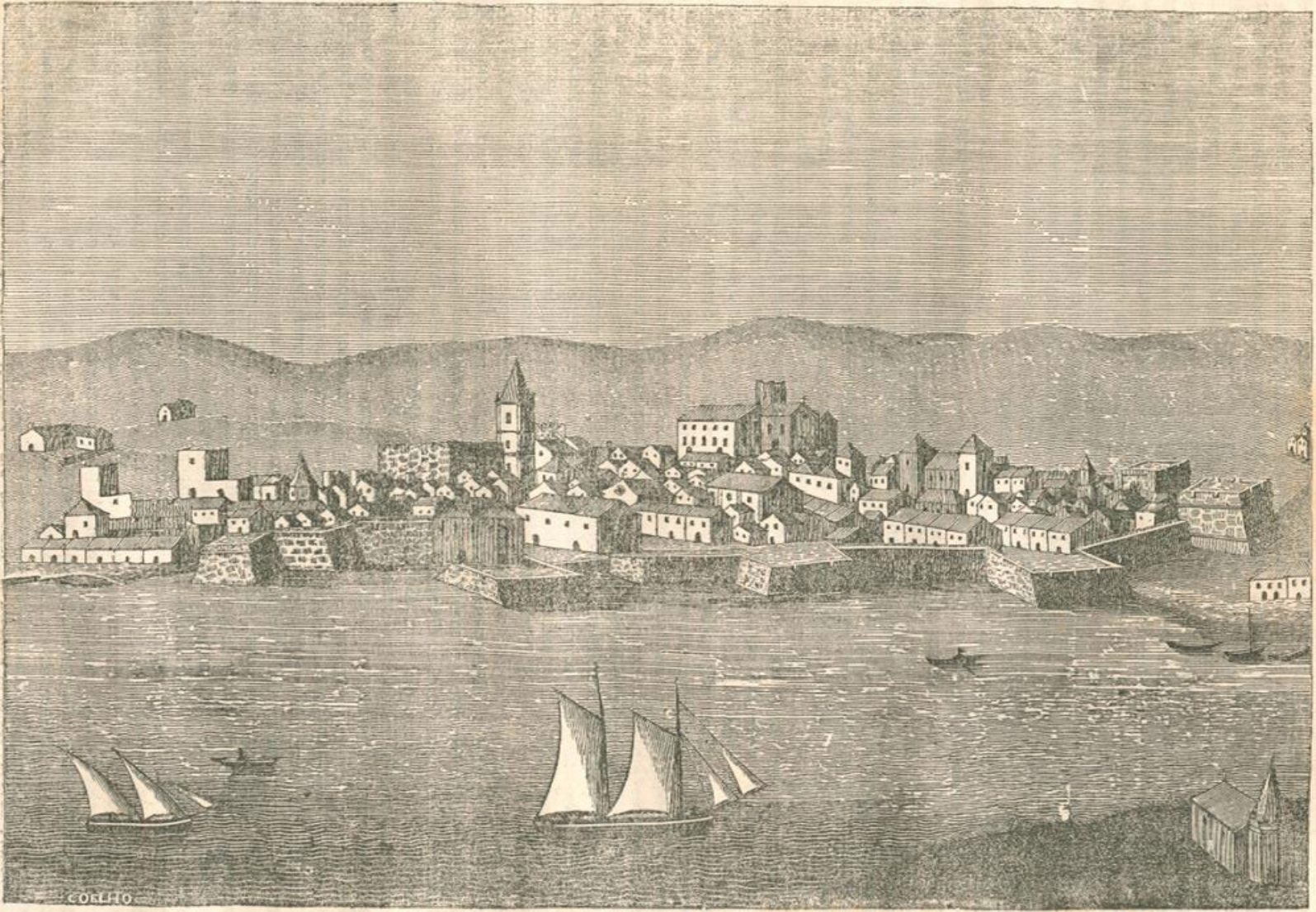 Drawing of the city of Lagos, in the Algarve region, Portugal. This image was published in the newspaper O Panorama No. 45, of 5th November 1842, and scanned by Hemeroteca Municipal de Lisboa.